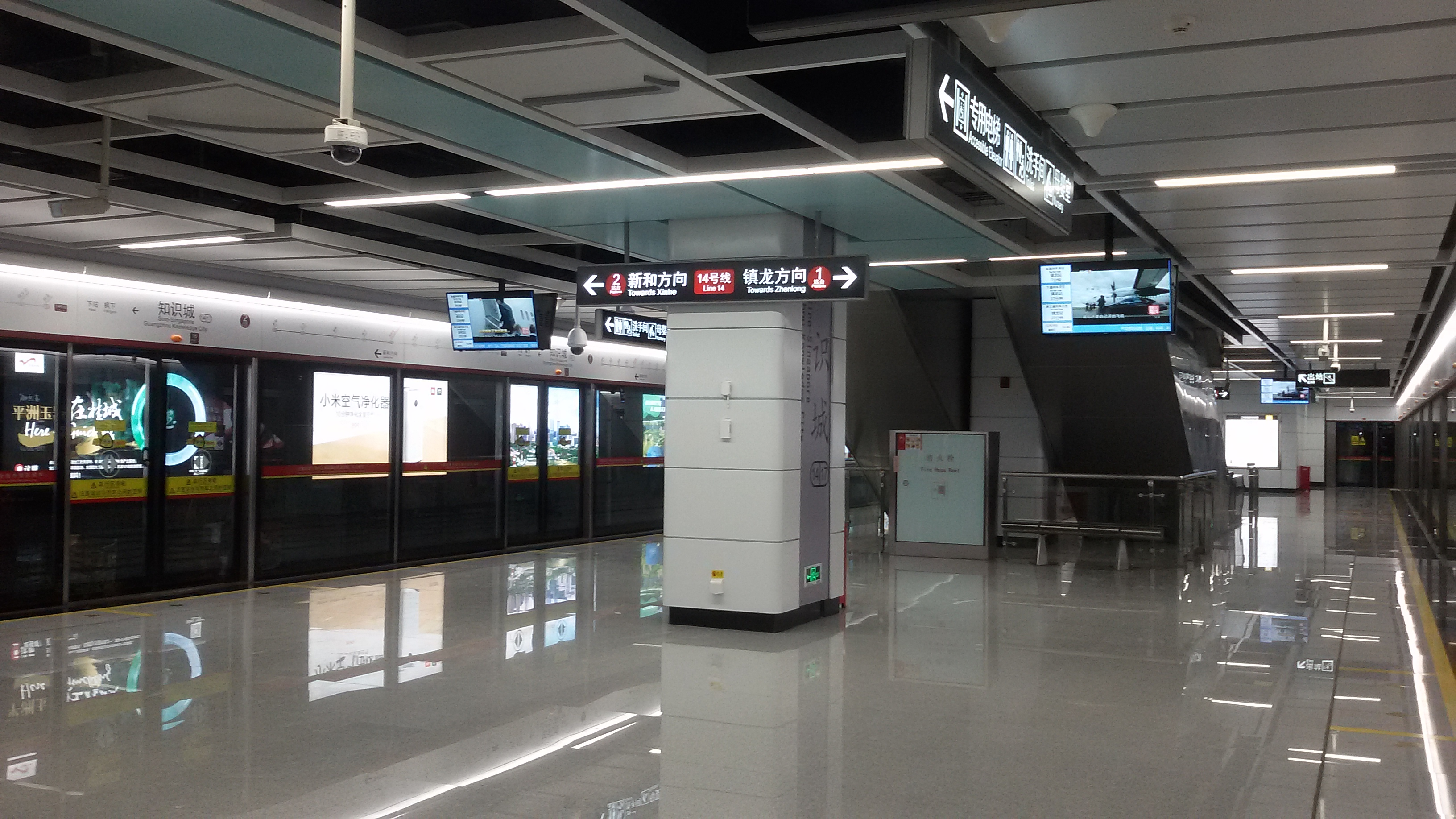 Station Platform for Sino-Singapore Guangzhou Knowledge City Station in Guangzhou Metro.